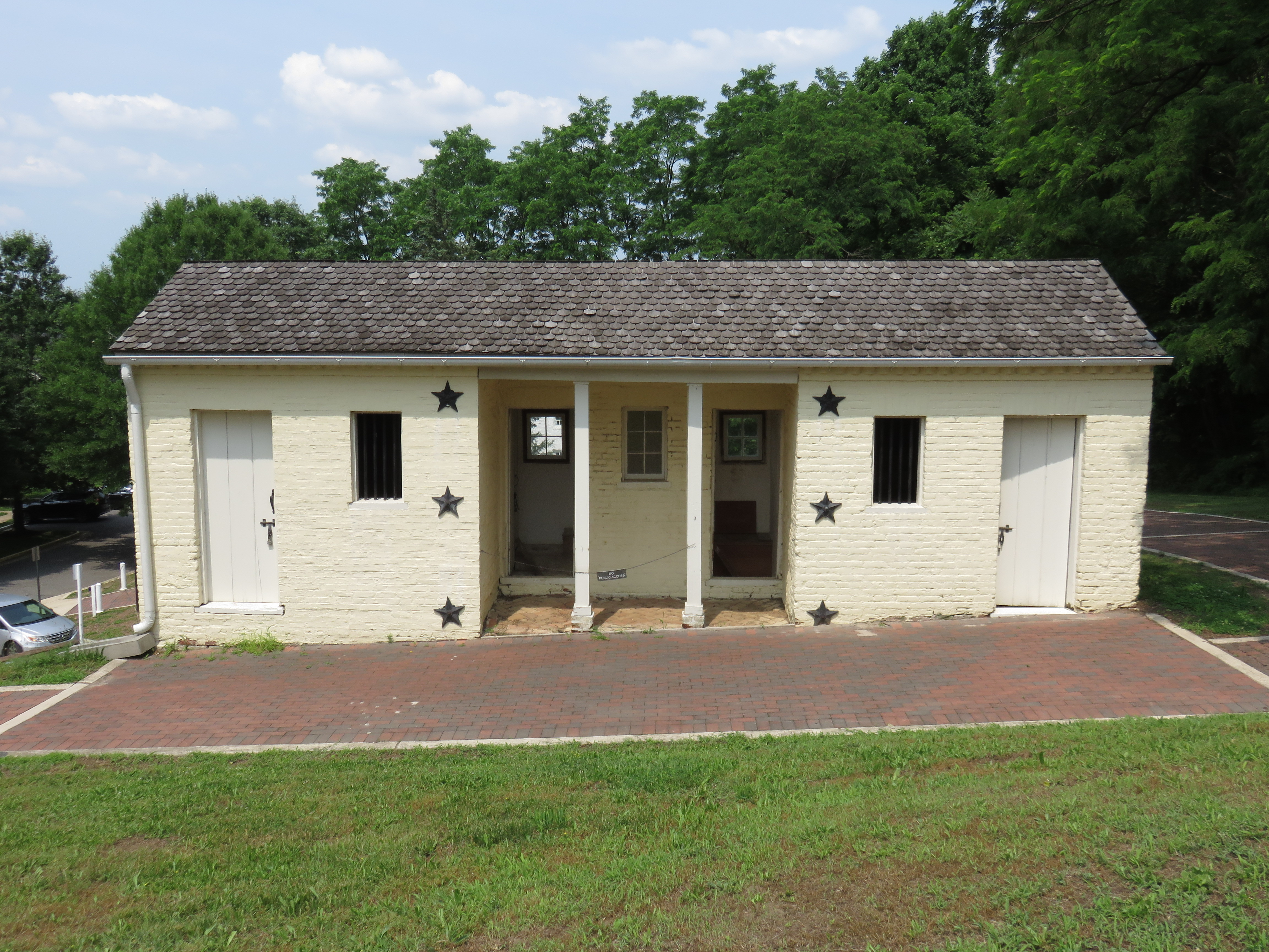 Historic Huntley plantation in Hybla Valley, Virginia in 2019